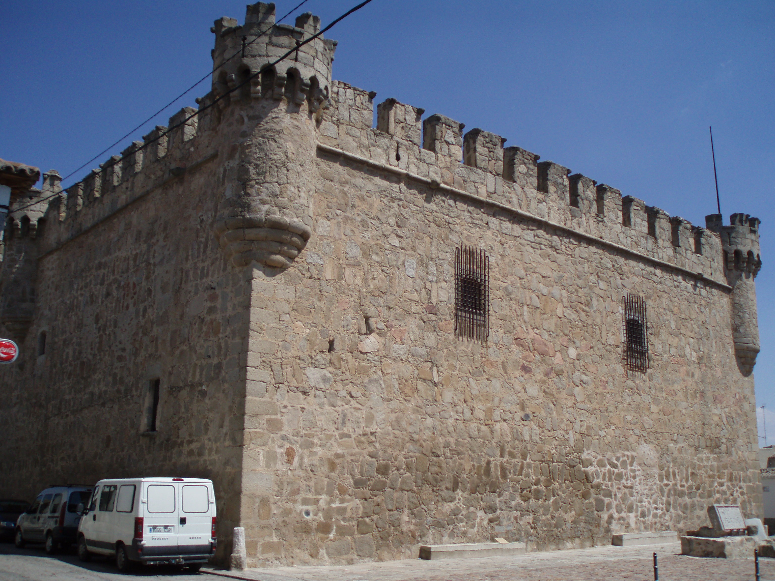 Castle of Orgaz, in province of Toledo. (Spain).